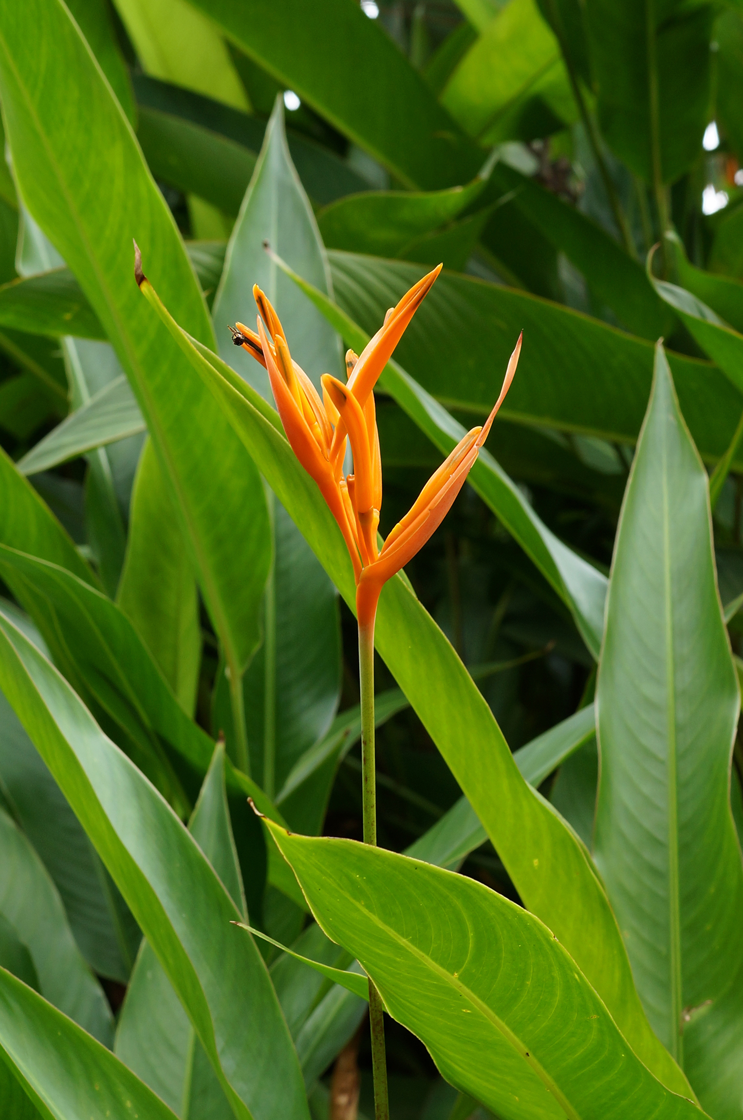 Parrot's Beak, Parakeet Flower, Parrot's Flower, Parrot's Plantain, False Bird-Of-Paradise